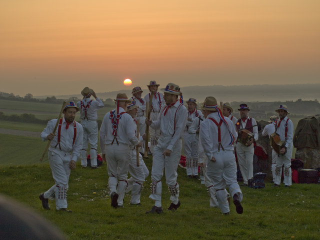 Coldrum Long Barrow - Hartley Morris Dance at Sunrise This is the Hartley Morris Men dancing at 05:32 Sunrise at the Coldrum Long Barrow on 1st May 2009. The Hartley Men have been doing this every year since 1976.